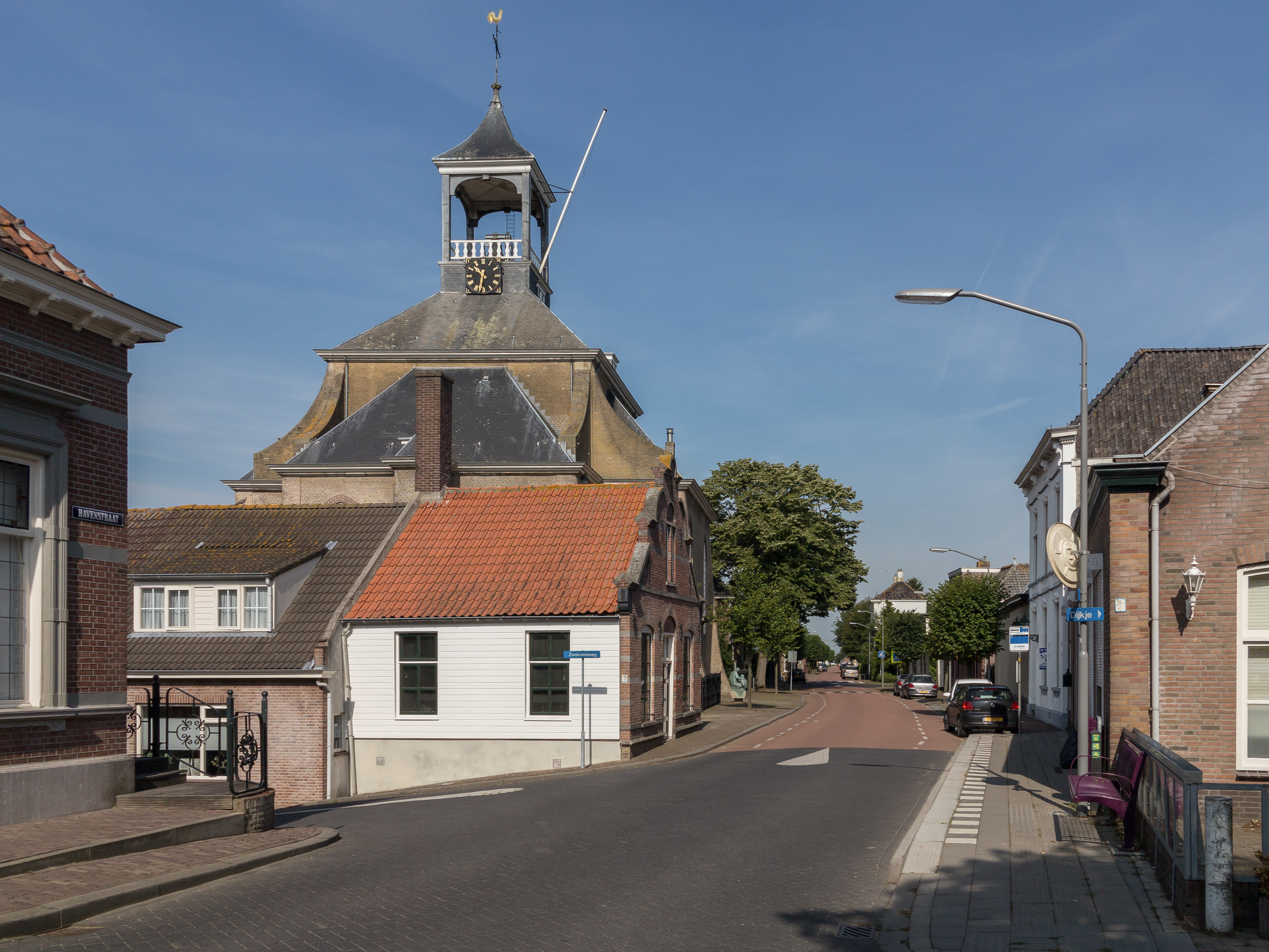 Hooge Zwaluwe, reformed church in the street